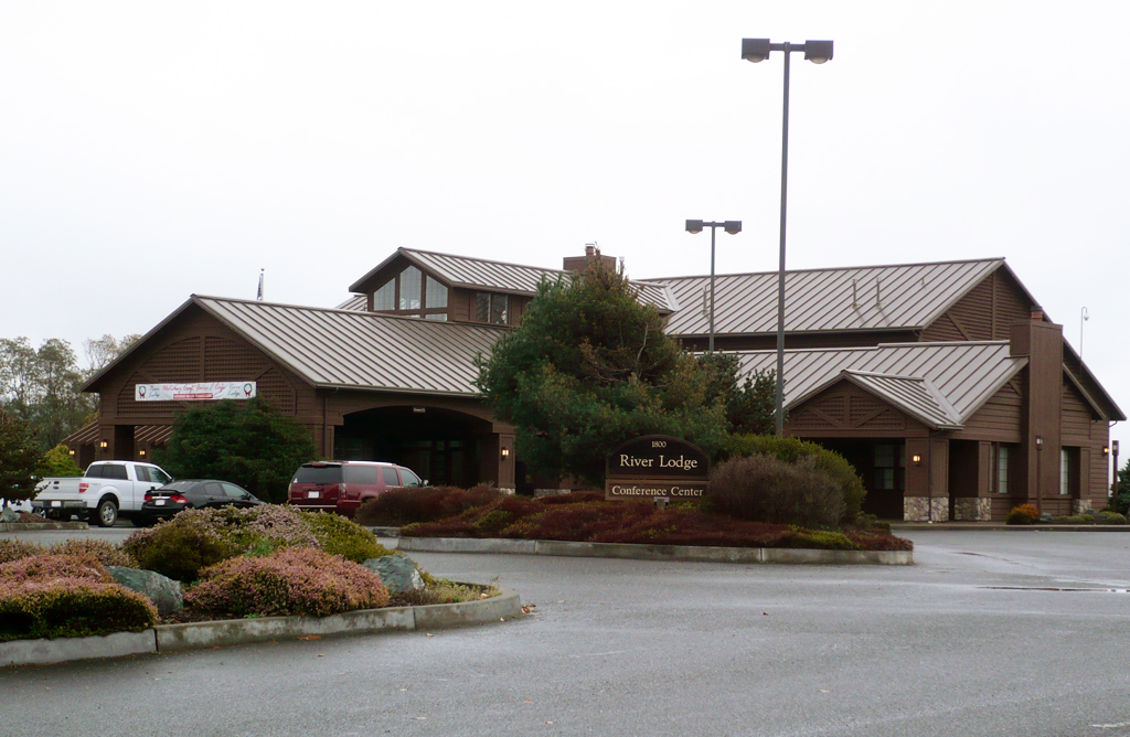 The River Lodge meeting and conference center in Fortuna, California has a heather garden, a river walk and overlook.